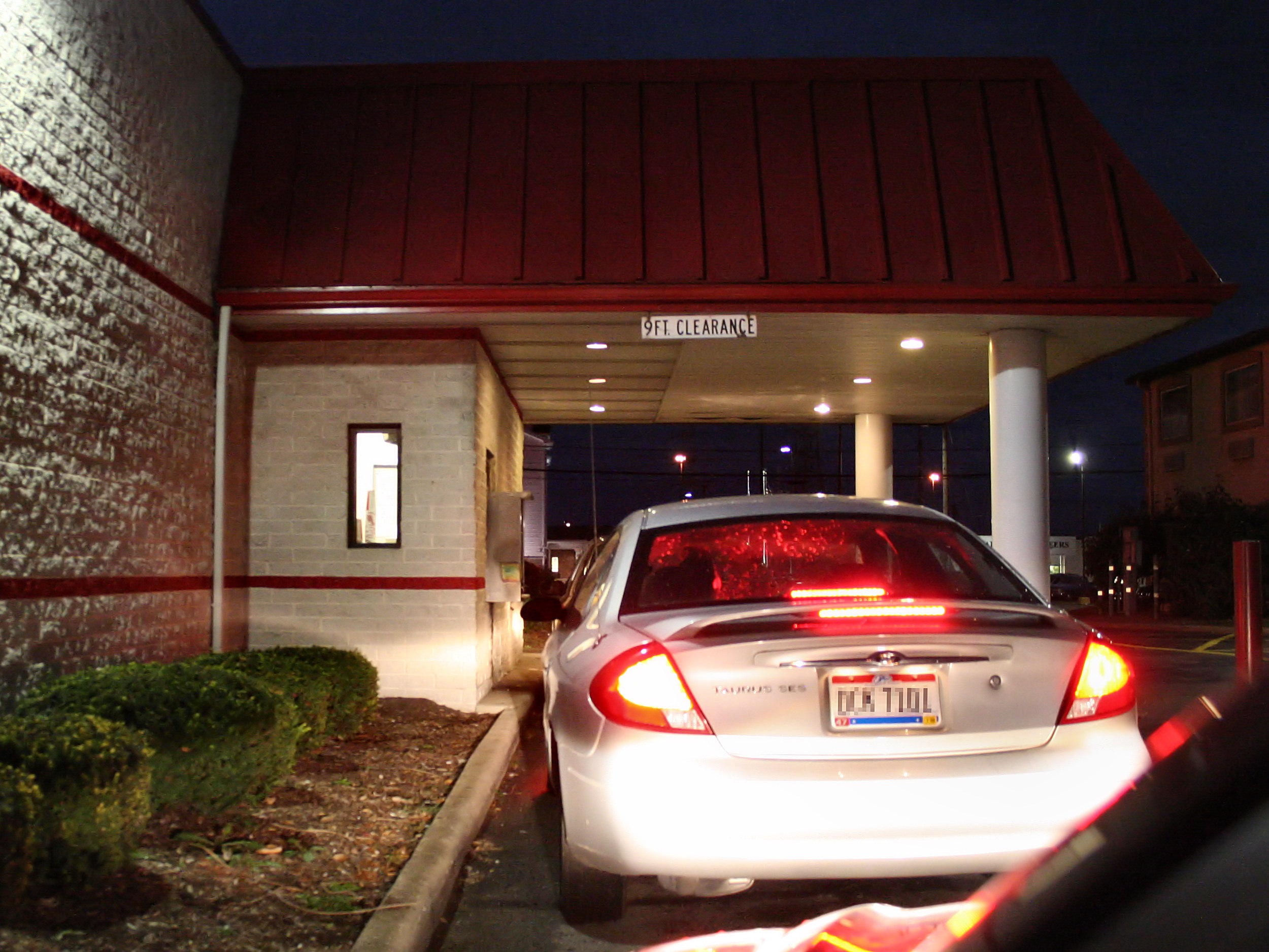 A drive-thru window at an Arby's fast food restaurant in the United States. Photo shot by Derek Jensen (Tysto), 2005-October-17